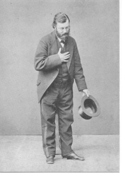 found at this old photo is almost certainly PD by now.